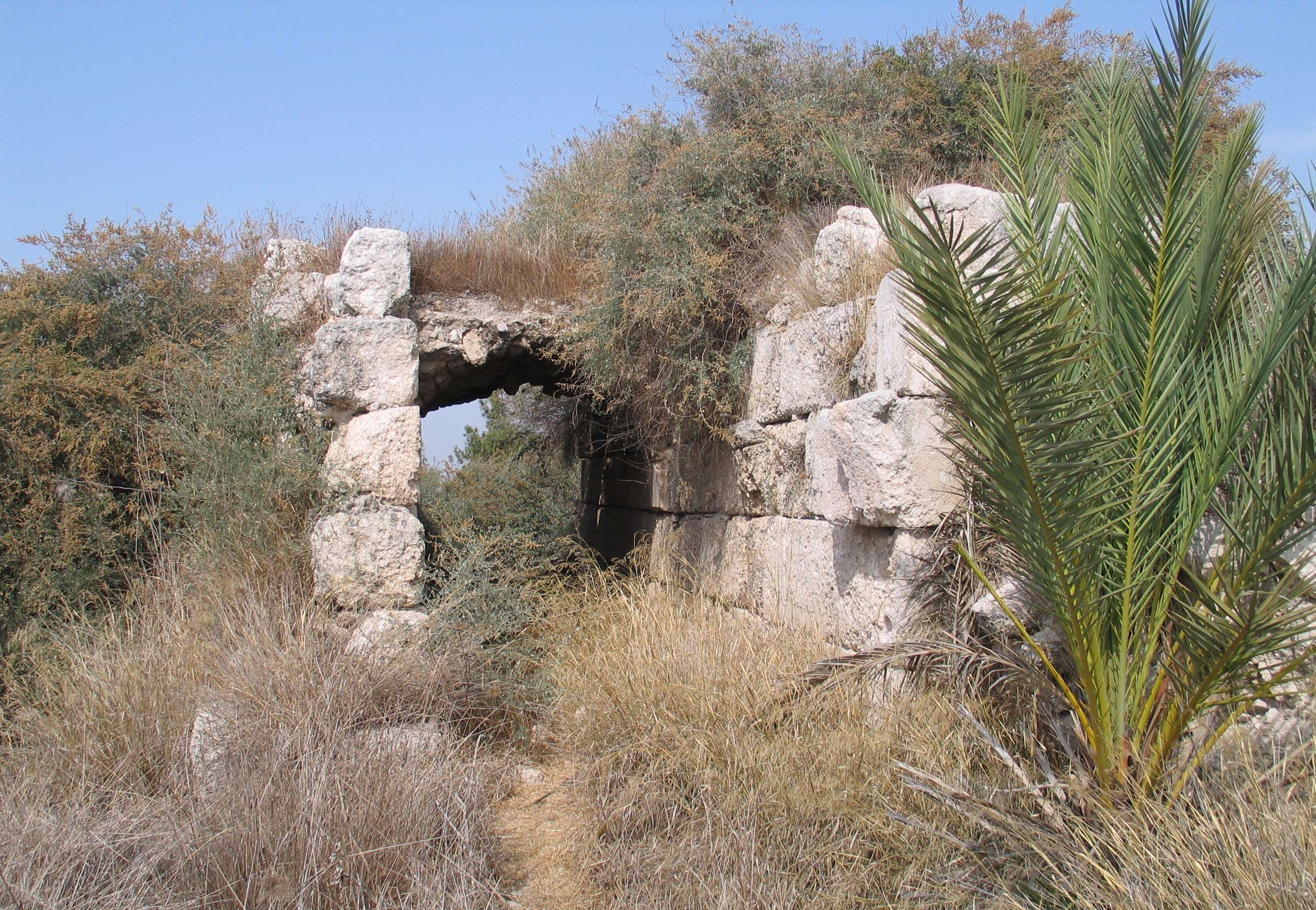 Ruins of the crusader castle at Latrun, Israel.